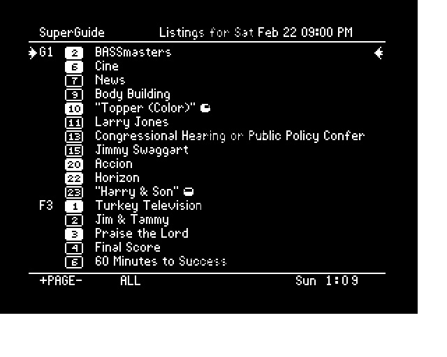 This is a screen shot taken from the 1st working prototype of SuperGuide by the developer Pete Hallenbeck